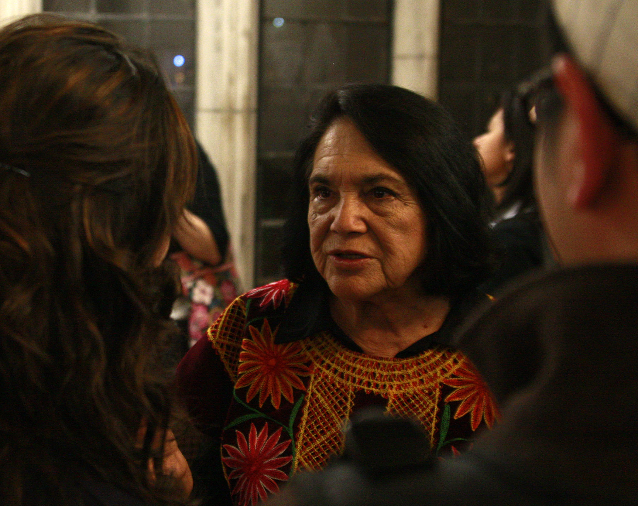 After a keynote addressing human rights, community organizer Dolores Huerta answers questions from University of Chicago students.